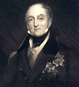 1830 Engaving of Sir Gore Ouseley